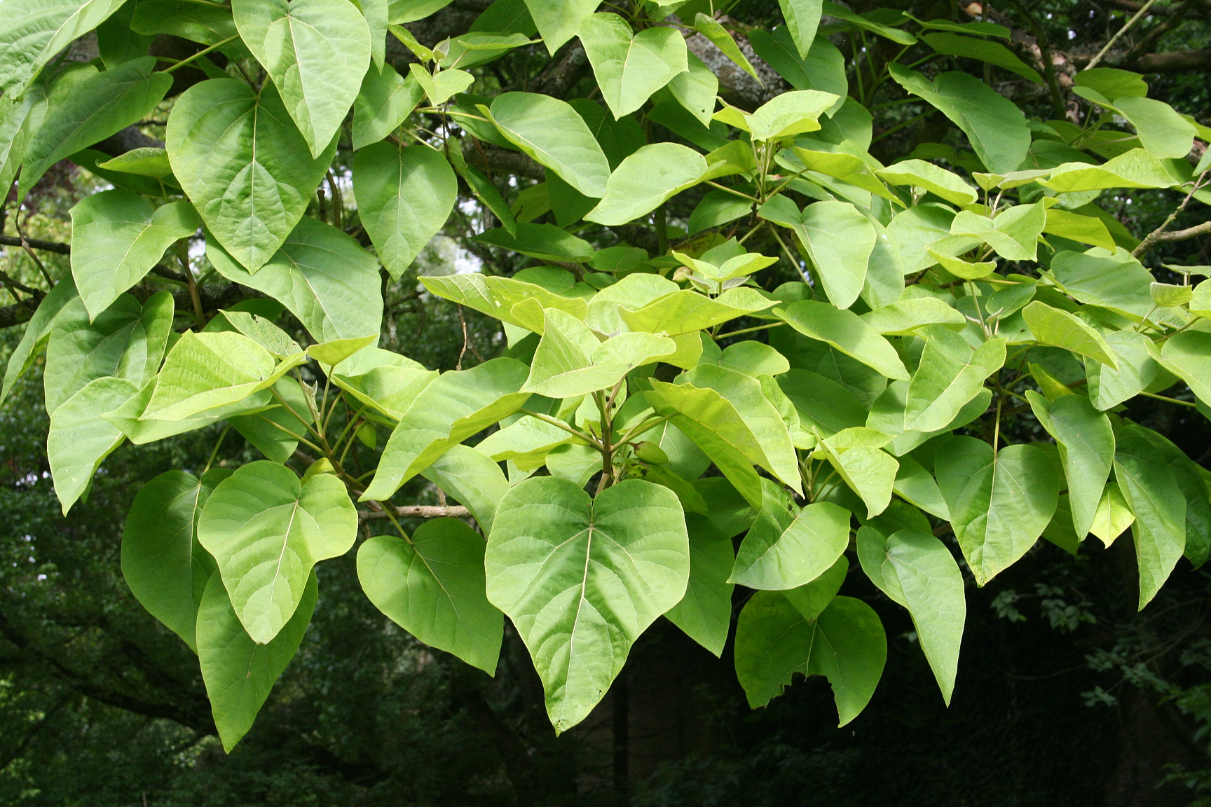 Empress Tree or Foxglove Tree leaves. '